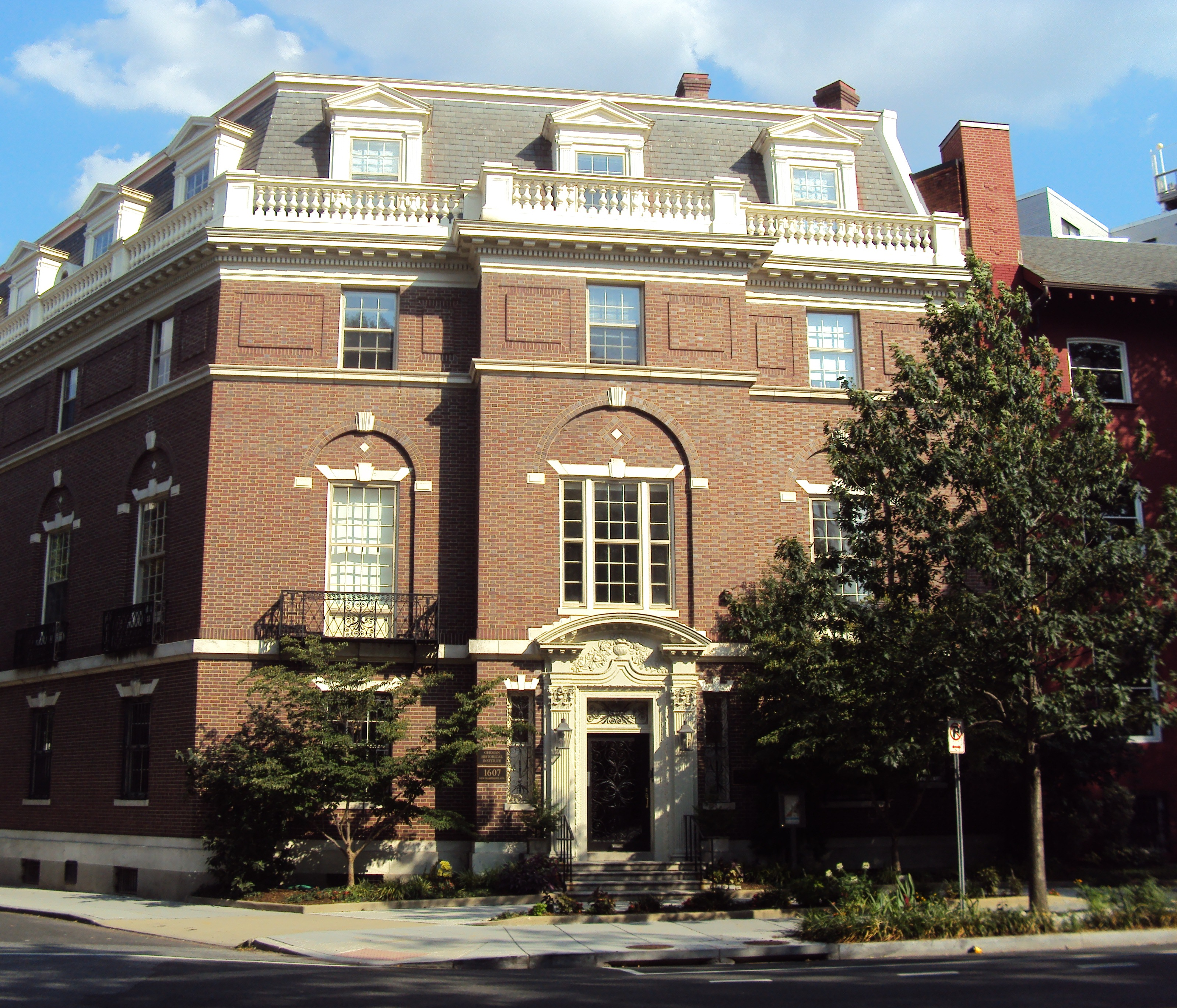 The German Historical Institute Washington D.C. (GHI) -- Washington's Second Blair House on New Hampshire Avenue NW